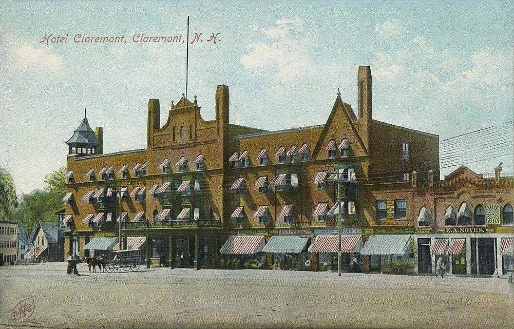 The Hotel Claremont, Claremont, New Hampshire. Designed by William Ralph Emerson, it was built in 1890-1892.